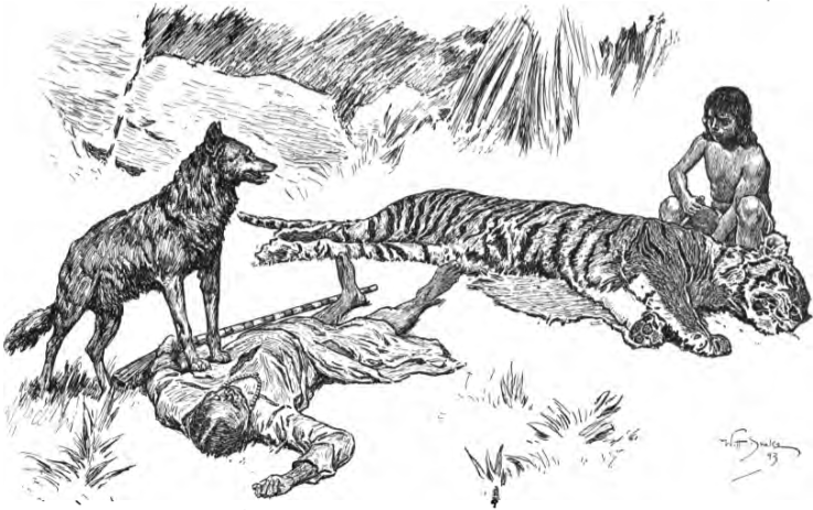 "Buldeo lay as still as possible, expecting every minute to see Mowgli turn into a tiger, too."